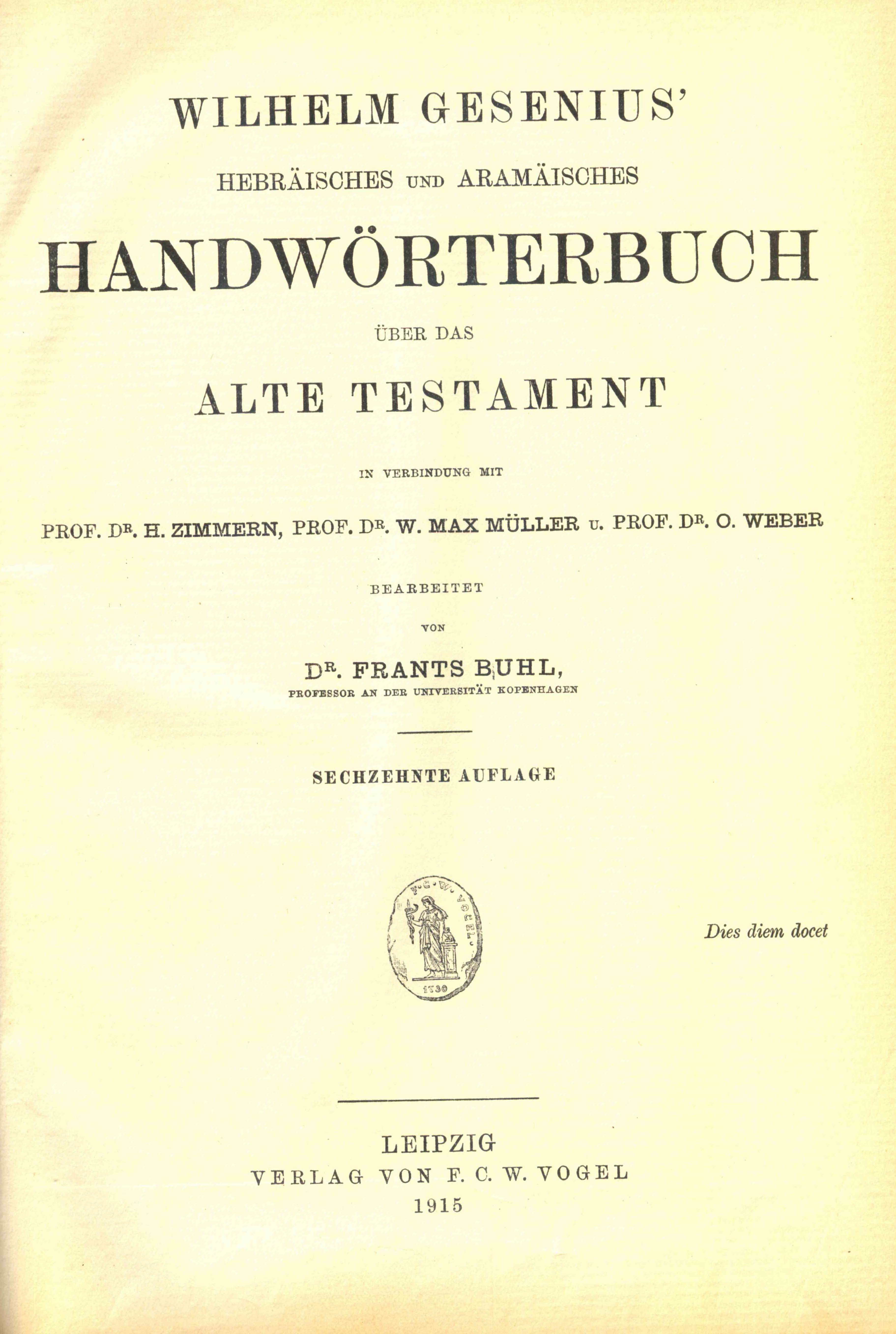 Gesenius’ Dictionary, 16th edition, 1915